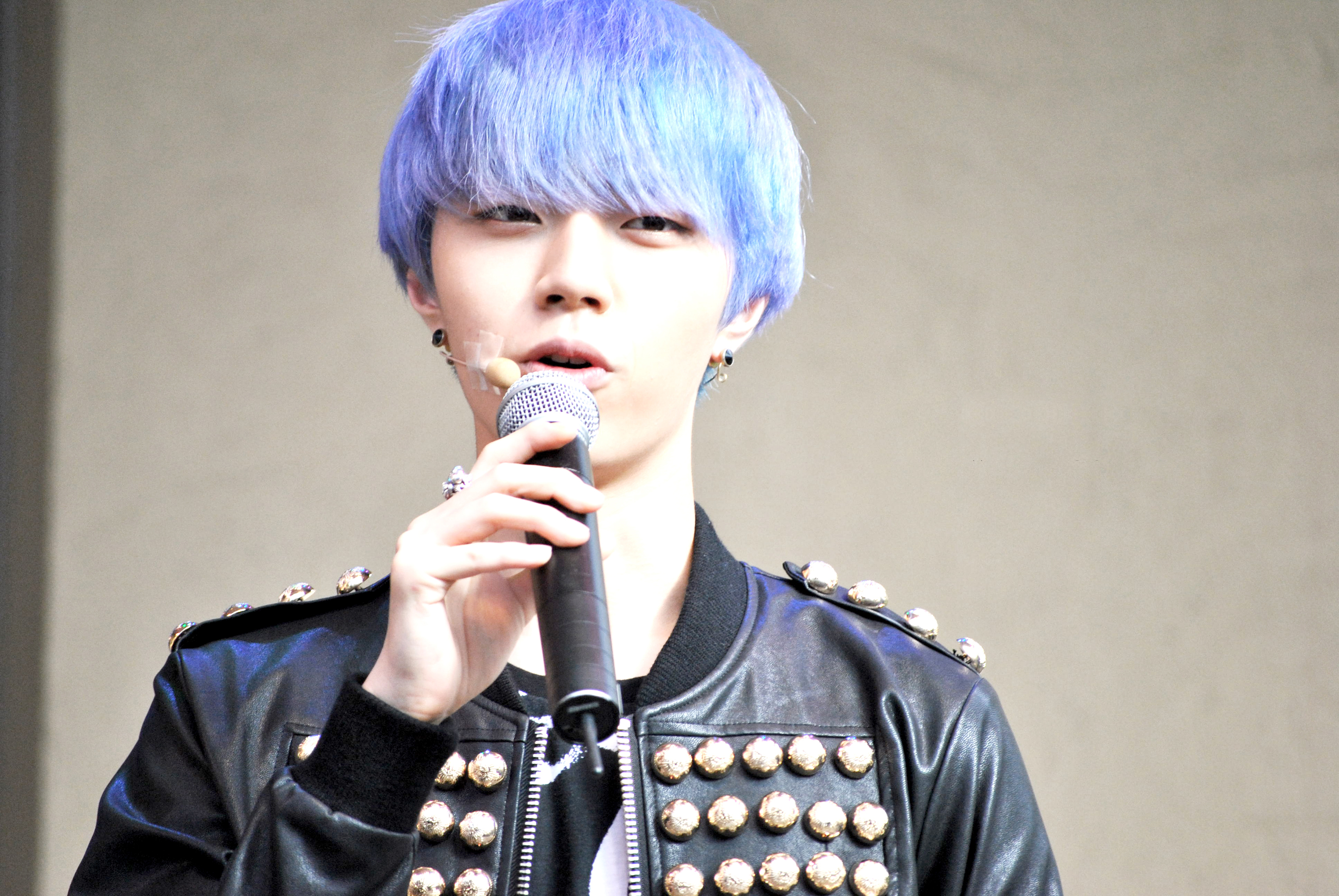 JunQ at Myname's release event for "What's Up" at LaQua in Tokyo on November 24, 2012.